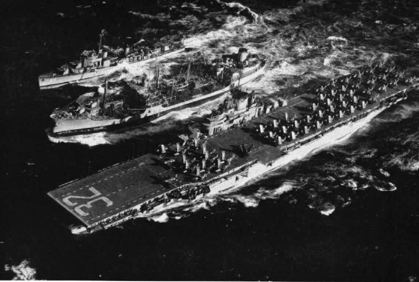 The U.S. Navy aircraft carrier USS Leyte (CV-32) and the Gearing-class destroyer USS Henderson (DD-785) being refueled off Korea between October 1950 and January 1951.